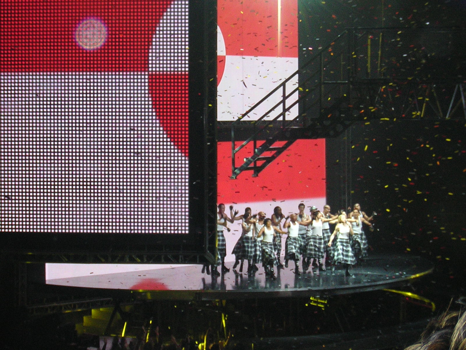 Madonna performing "Holiday"